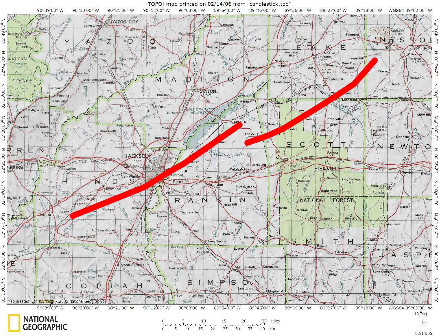 Revised track of the 1966 Candlestick Park tornado showing it as two separate tornadoes rather than one